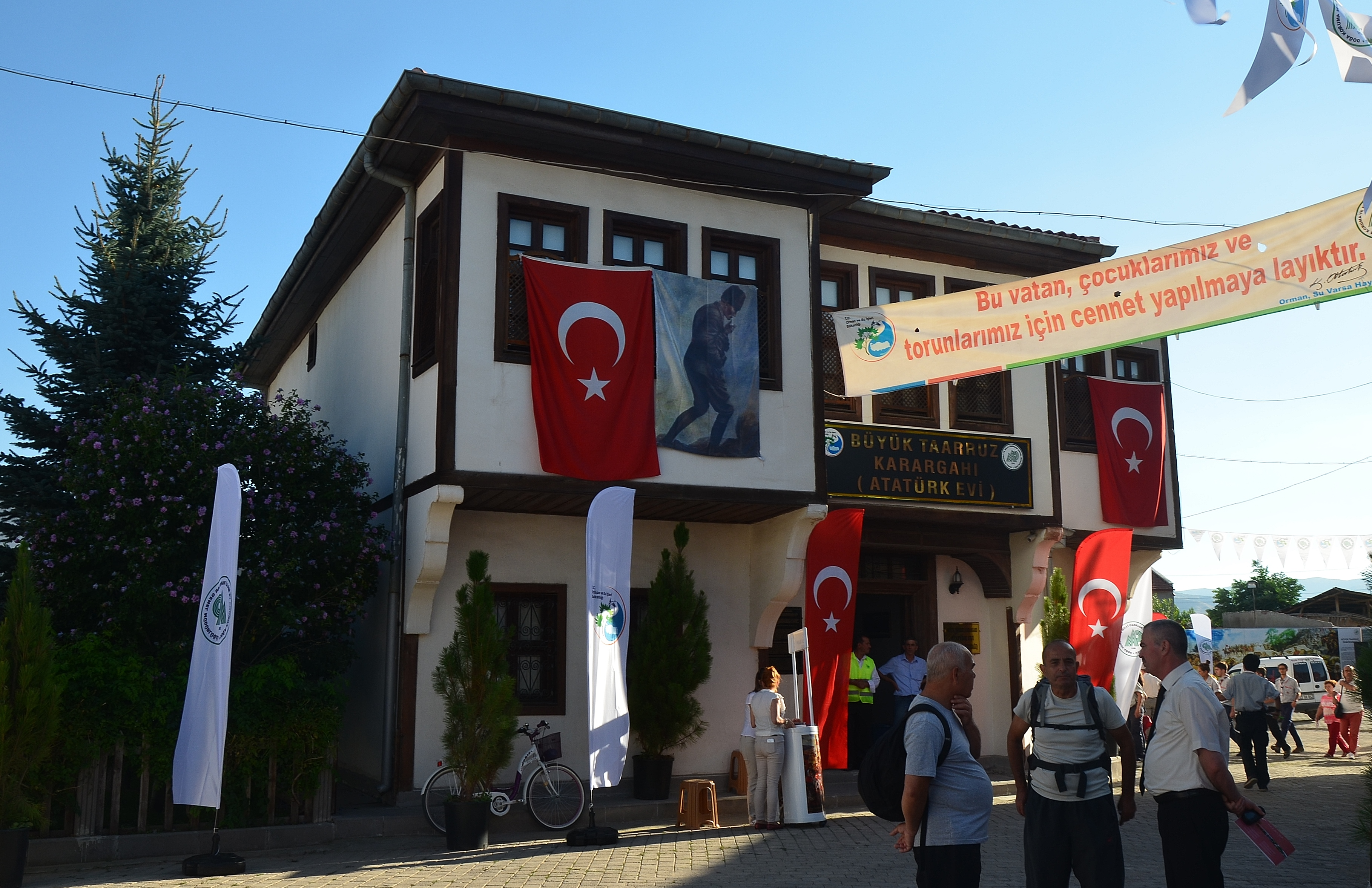 Atatürk's House Museum in Şuhut, Afyonkarahisar, Turkey. The house was used by Commander-in-Chief Mustafa Kemal (Atatürk) in the eve of Great Offensive in 1922.